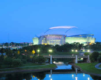 Cowboys Stadium in Arlington, TX